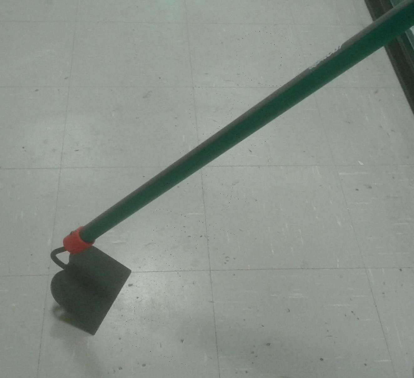 Draw hoe, currently sold in the UK.